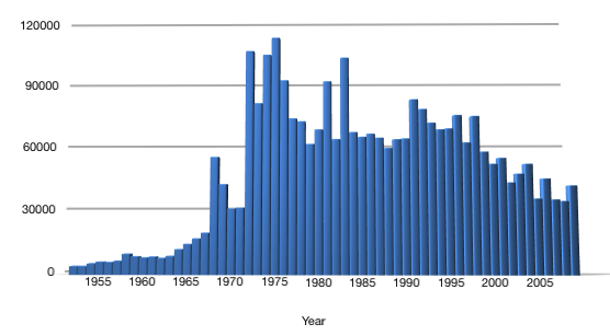 Graph of the global capture production to 2010 for the common octopus, Octopus vulgaris, in tonnes, based on data sourced from the FAO, Rome.